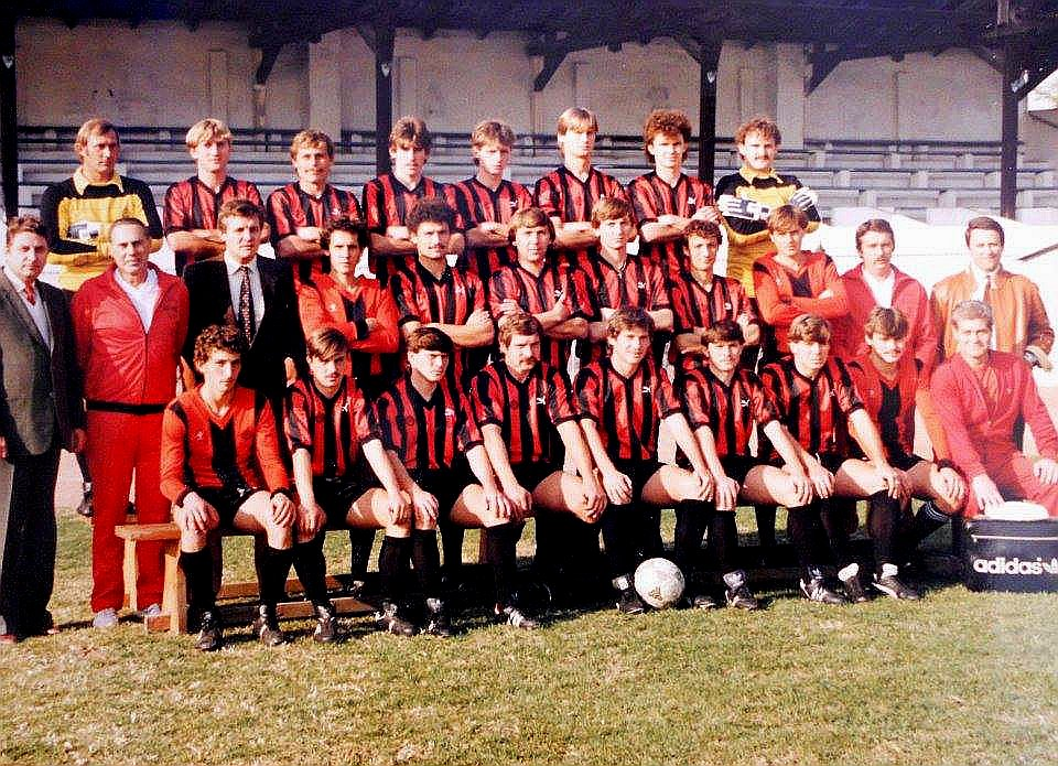 Team of the Dorog between 1984 and 1985